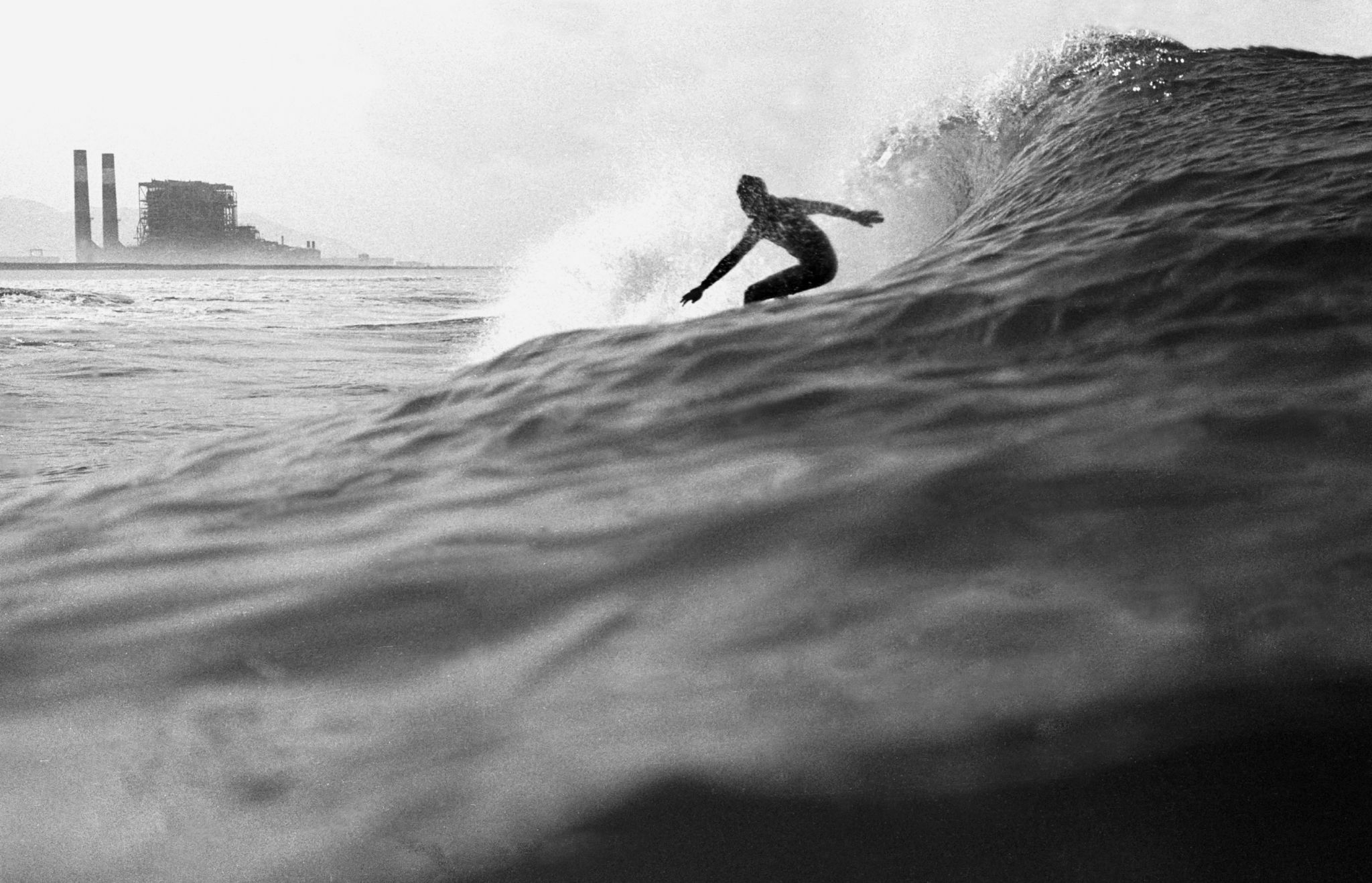 Surfing at Ormond Beach, Oxnard, California, USA. The picture was taken with a Minolta SRT-102, used in a self-made water-tight plastic housing.